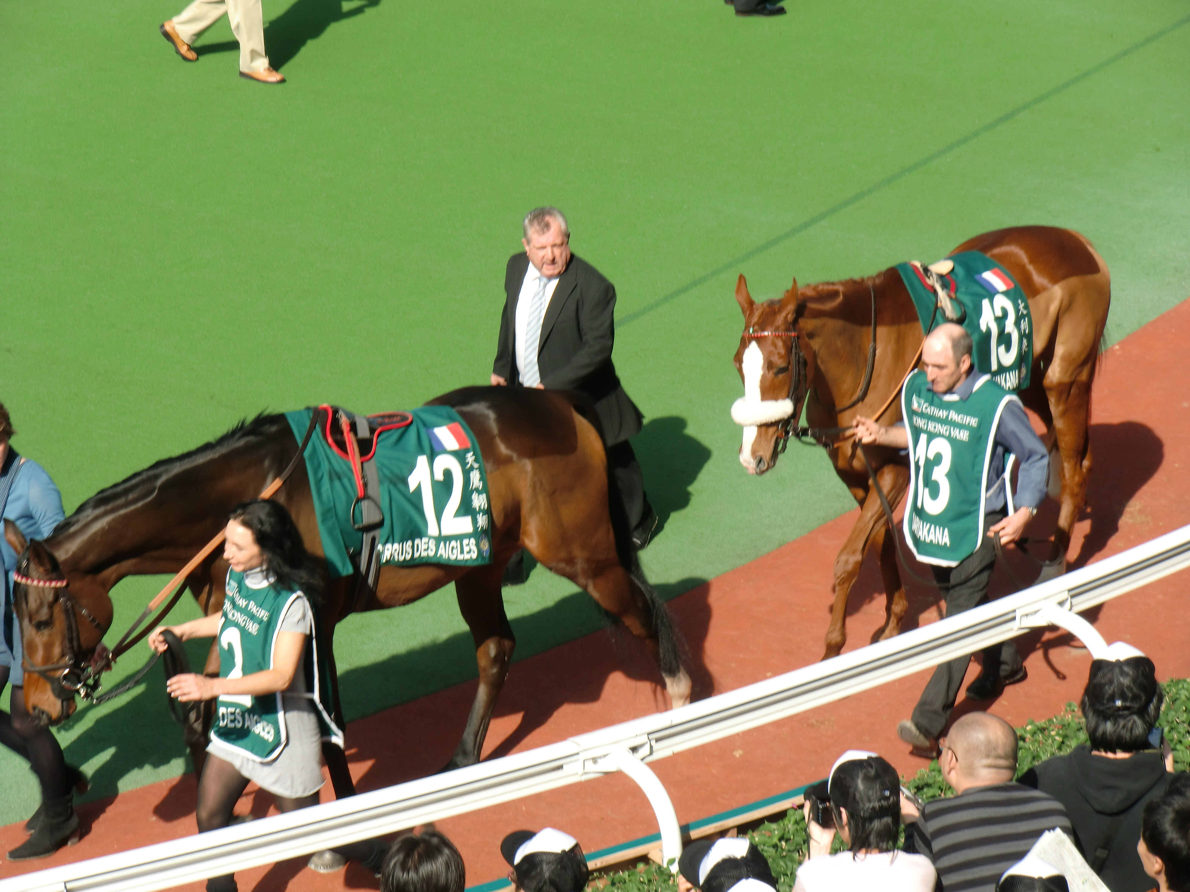 Cirrus des Aigles (fornt) and Daryakana (behind) who started at 2009 Hong Kong Vase, Daryakana won the race